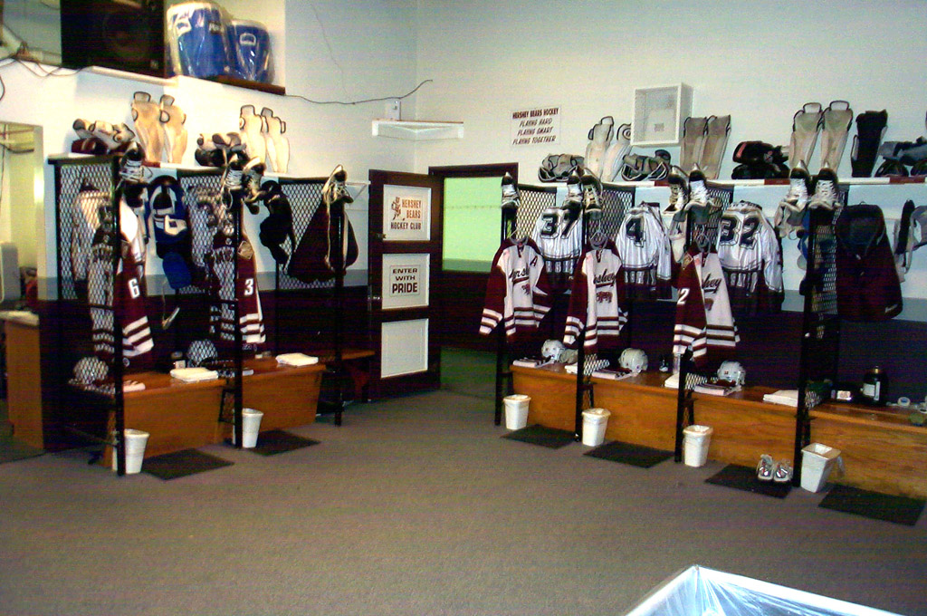 Hershey Hockey Club Program locker room at HersheyPark Arena, Hershey, PA 2001-02 season